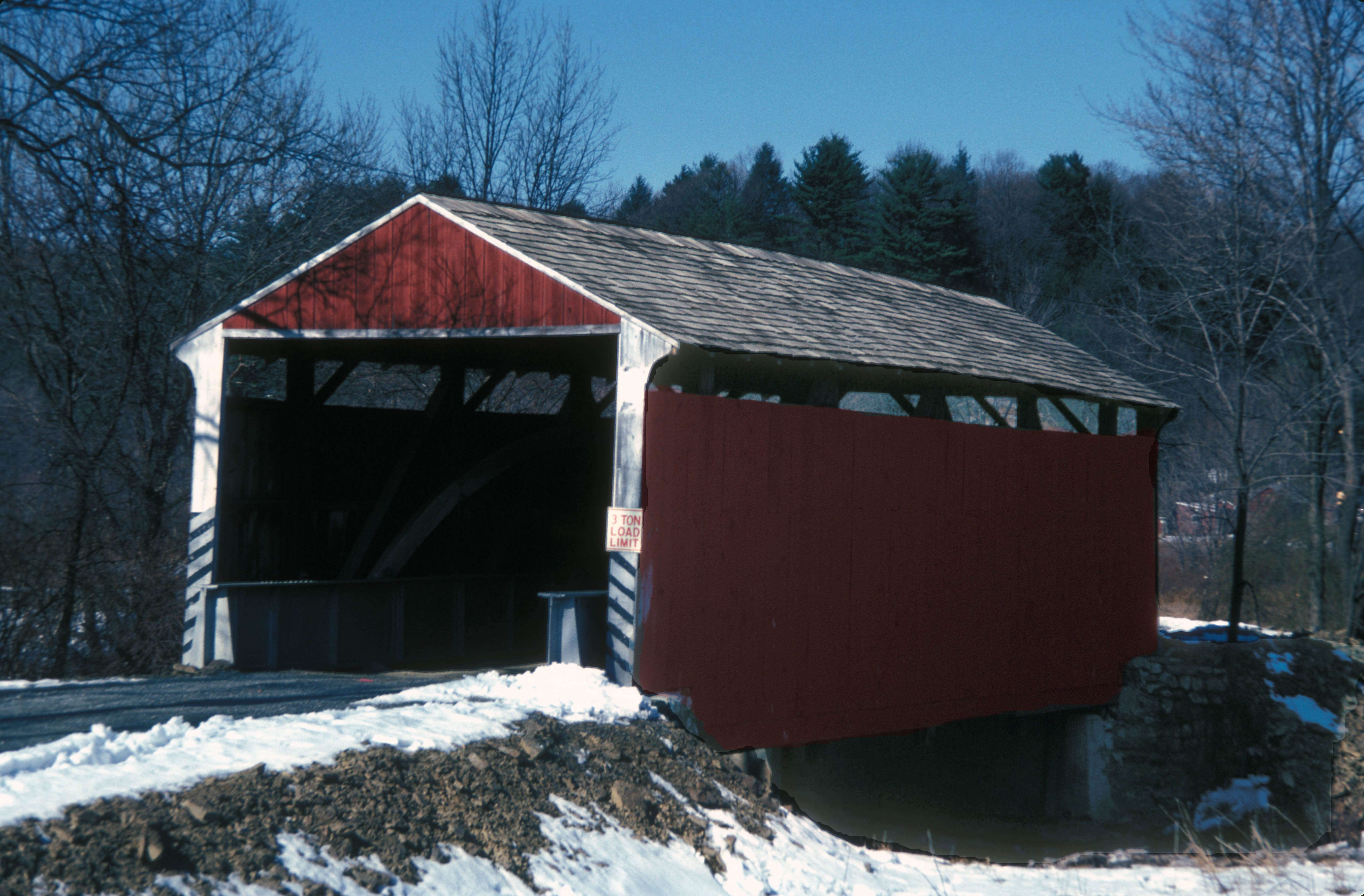 Rock Covered Bridge or Schuylkill County Bridge No. 113 over Little Swatara Creek and east of the village of Rock in Washington Township, Schuylkill County, Pennsylvania, USA.